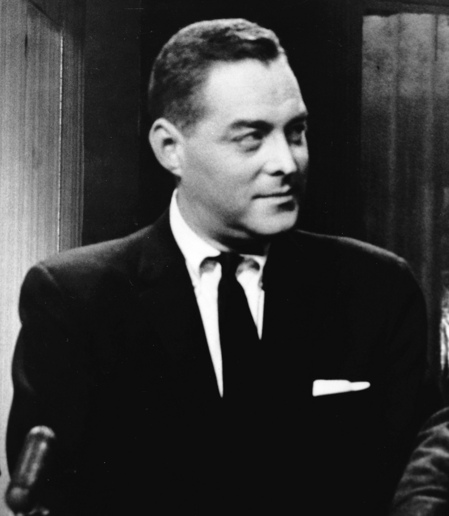 Quiz show "21" host Jack Barry, cropped from File:Vivienne Nearing, Jack Barry, Charles Van Doren NYWTS.jpg